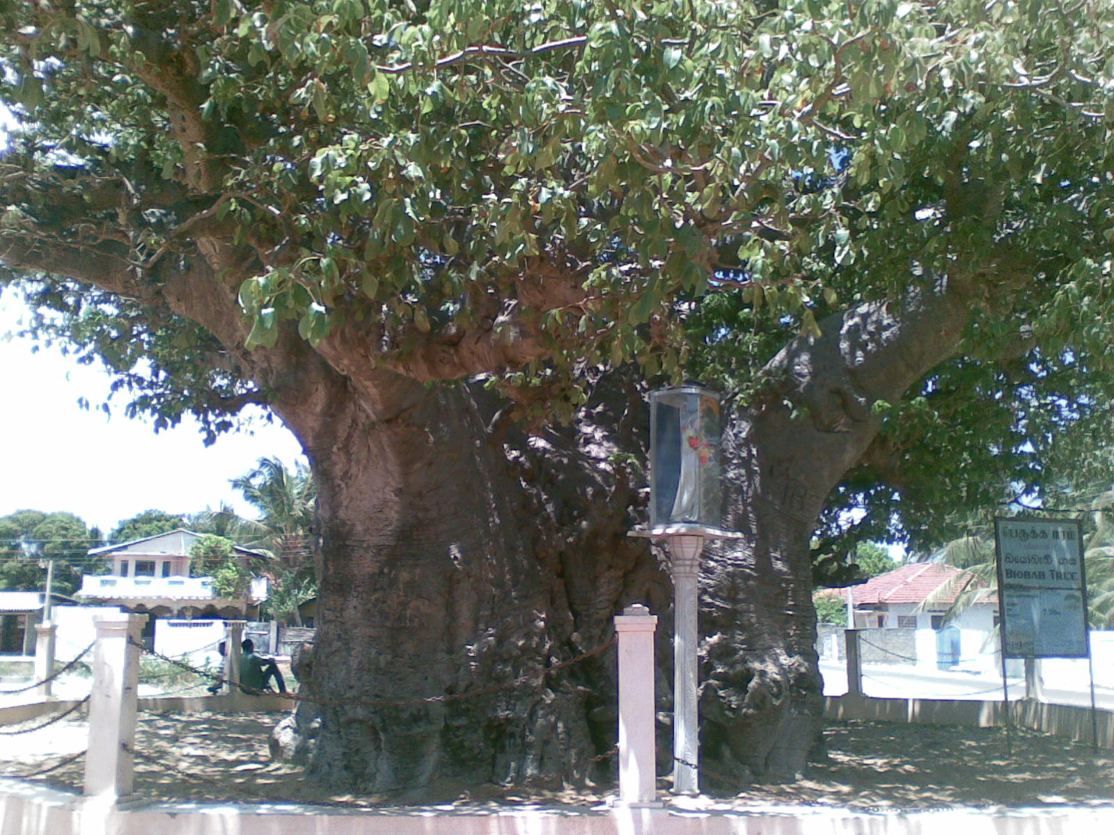 Bio-bab tree in Mannar, Sri Lanka